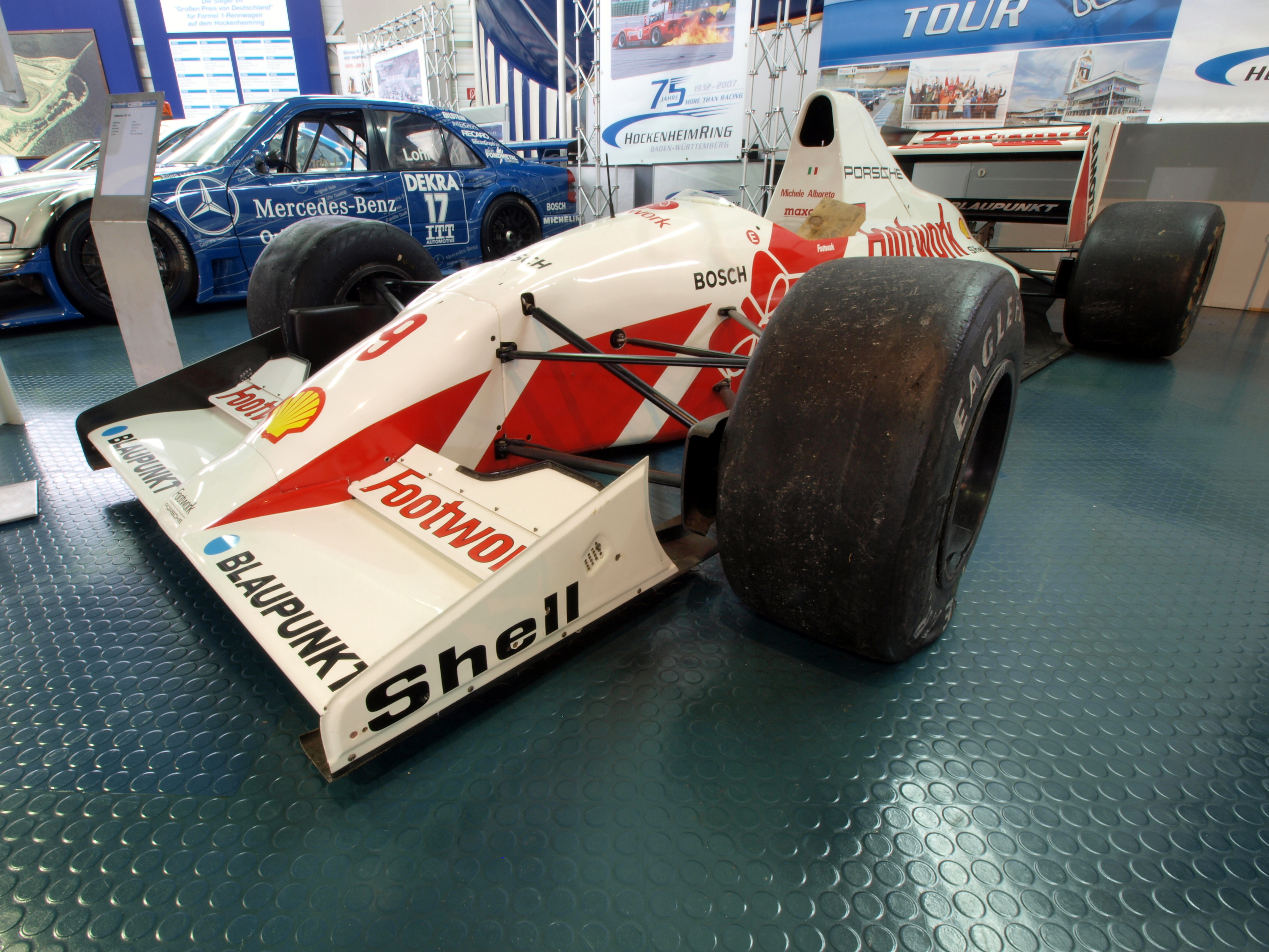 Photographed at the Motor-Sport-Museum am Hockenheimring, Germany.